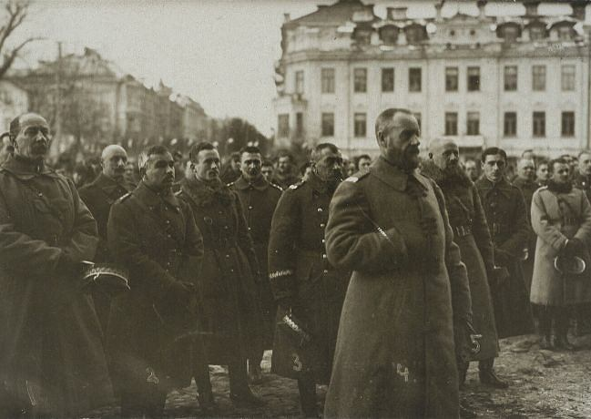 Gen. Żeligowski leading his soldiers, Wilno (Vilnius), 1920